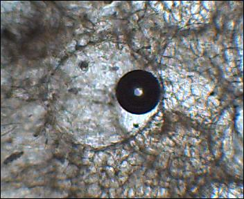 cellula 56767